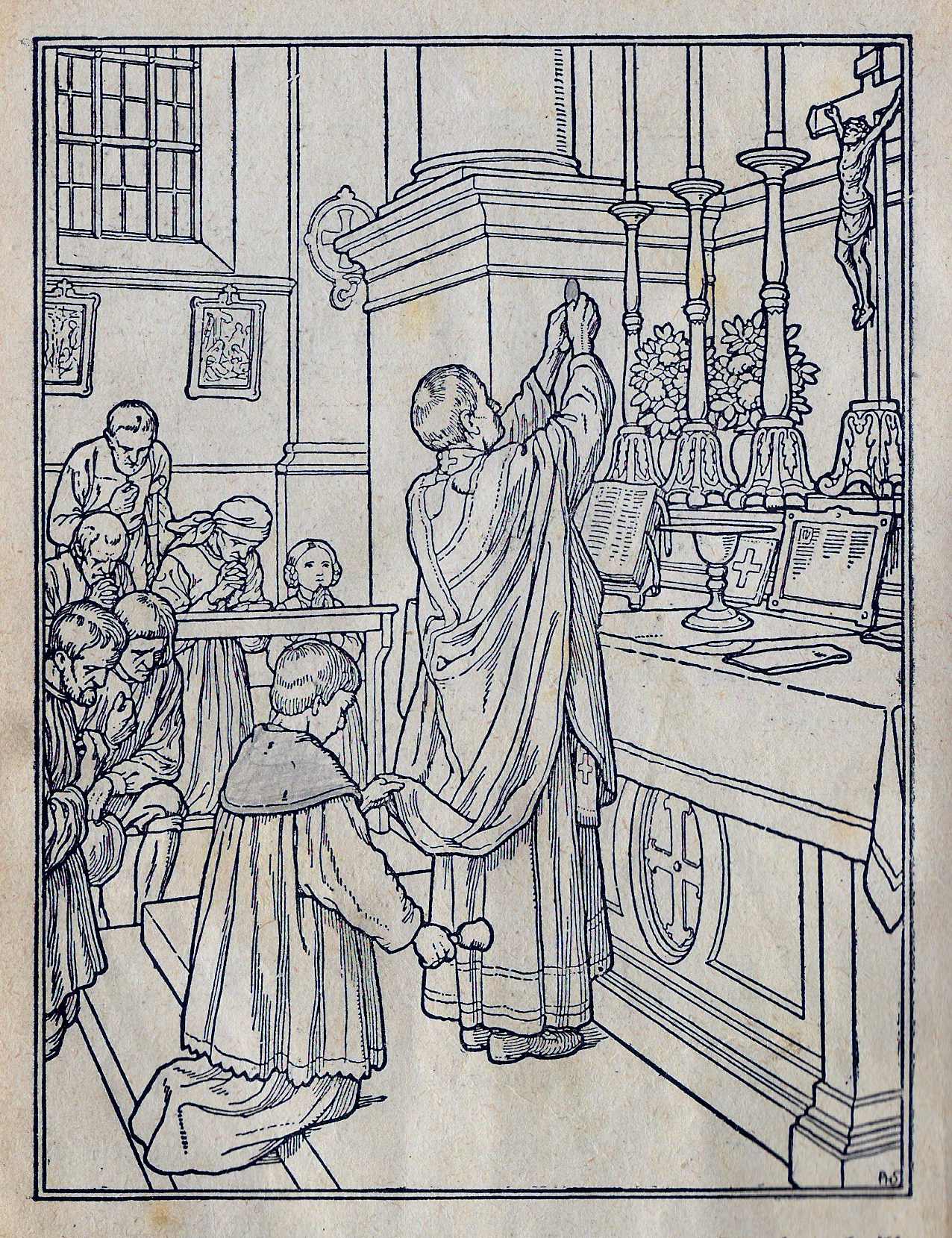 Host elevation.